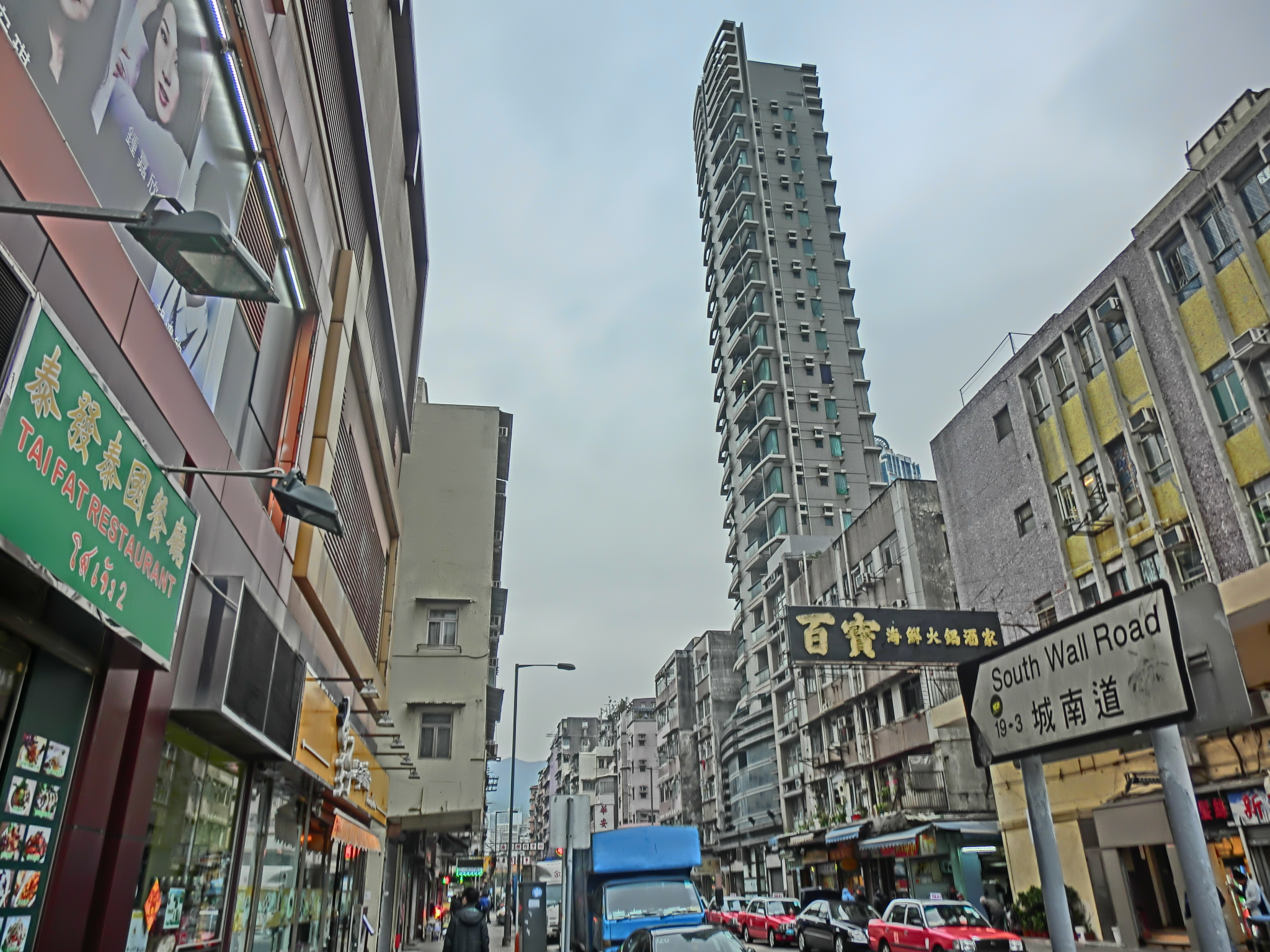 九龍城 城南道, South Wall Road, Kowloon City, Hong Kong in Feb-2014